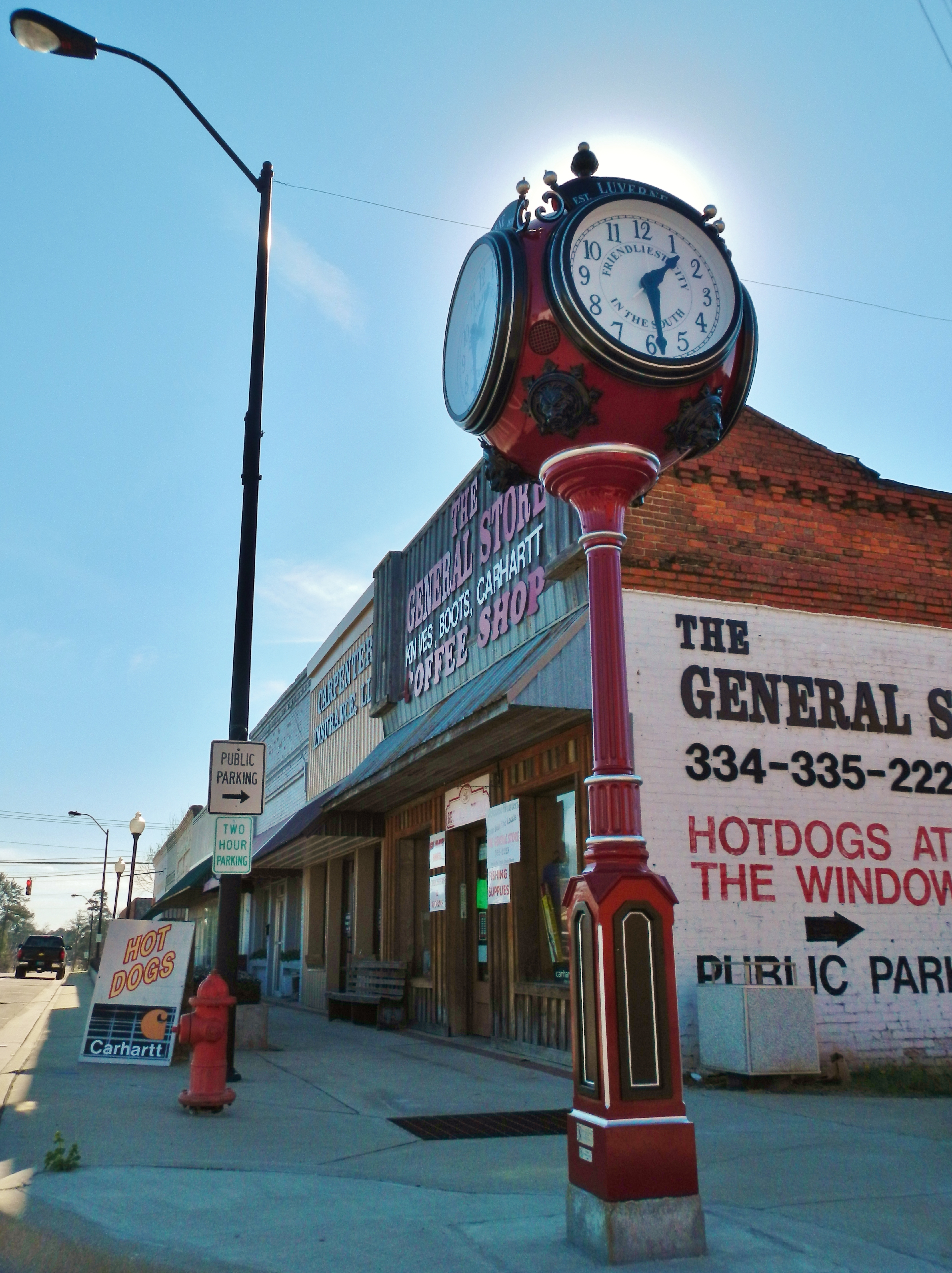 This is a photo of Luverne, Alabama.